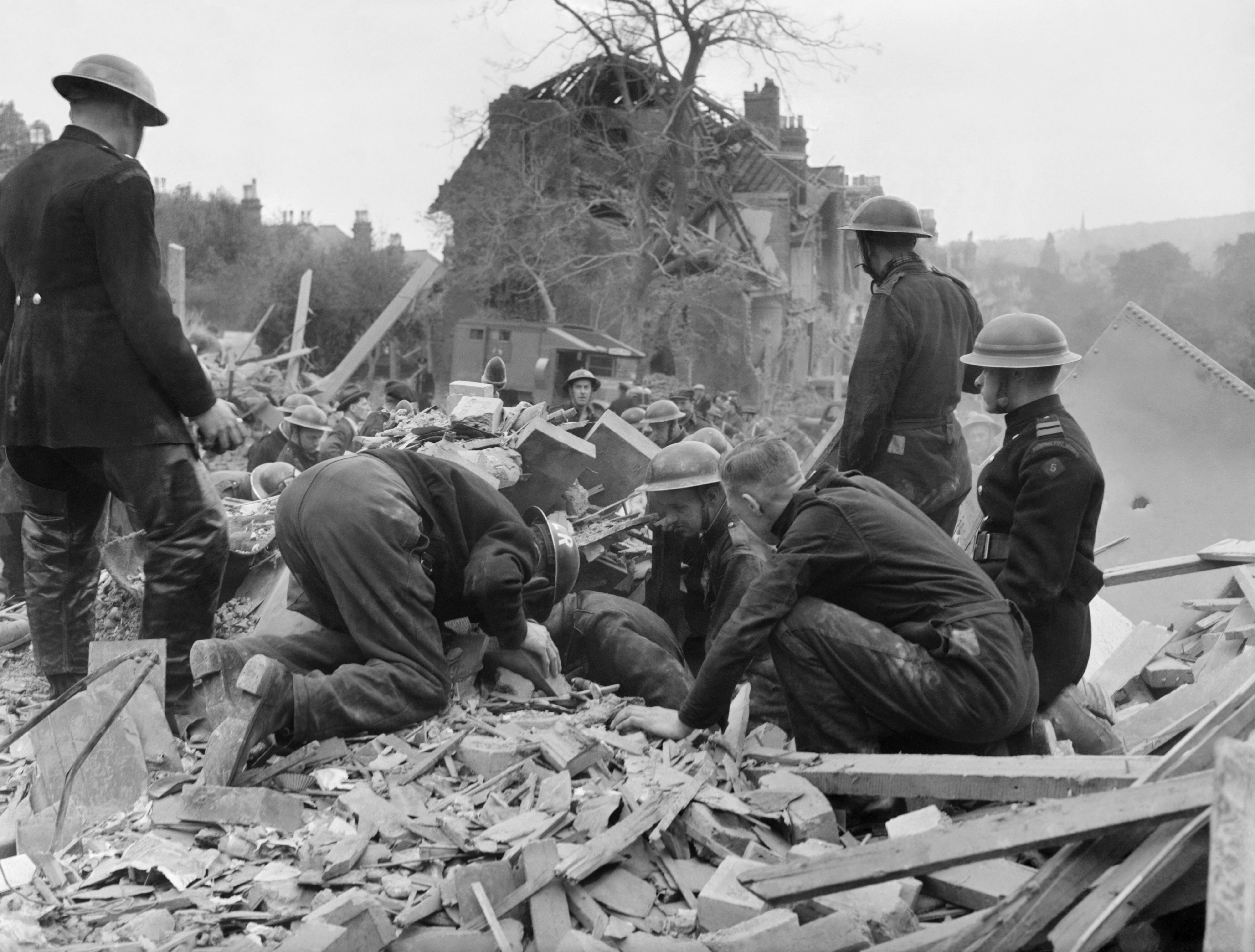 Flying Bomb- V1 Bomb Damage in London, England, UK, 1944 Men of Civil Defence heavy and light rescue teams and men of the National Fire Service (NFS) listen for survivors as they search a cavity in a large pile of rubble, timbers and debris following a V1 attack in the Highland Road and Lunham Road area of Upper Norwood.